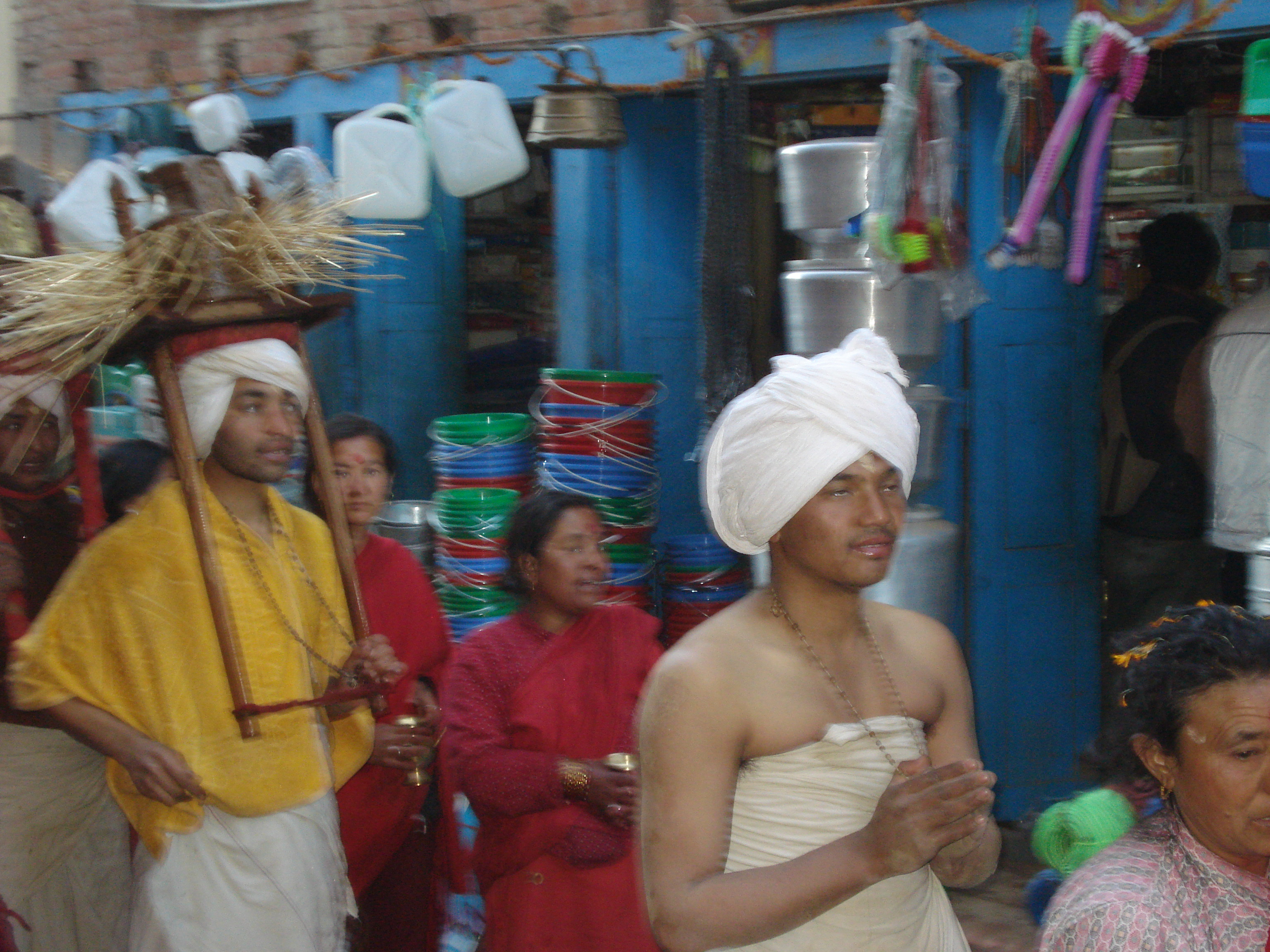 men and women taking part fasting and visiting all the gods and goddess of sankhu